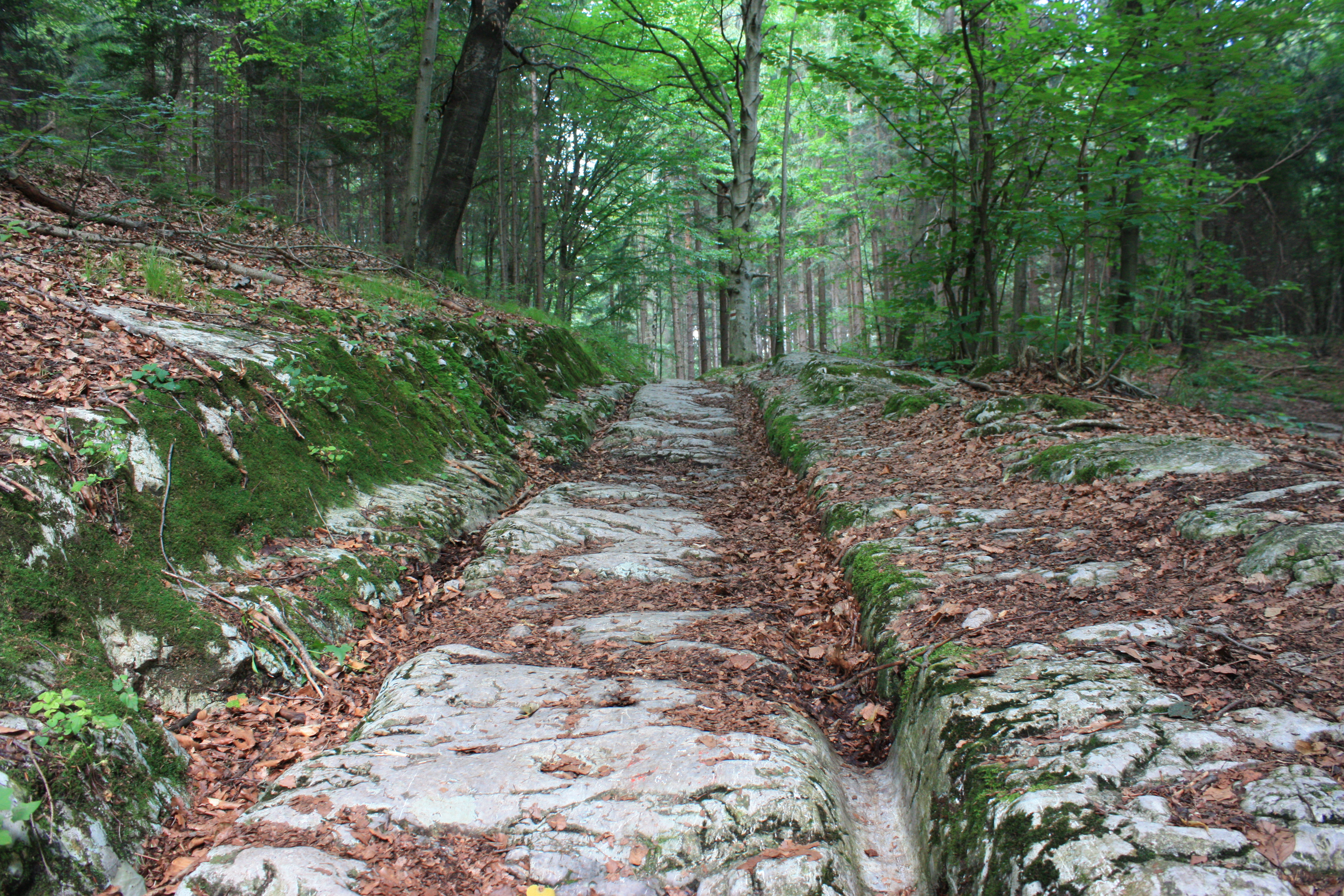 Historic Roman street in Warmbad-Villach Community:Villach